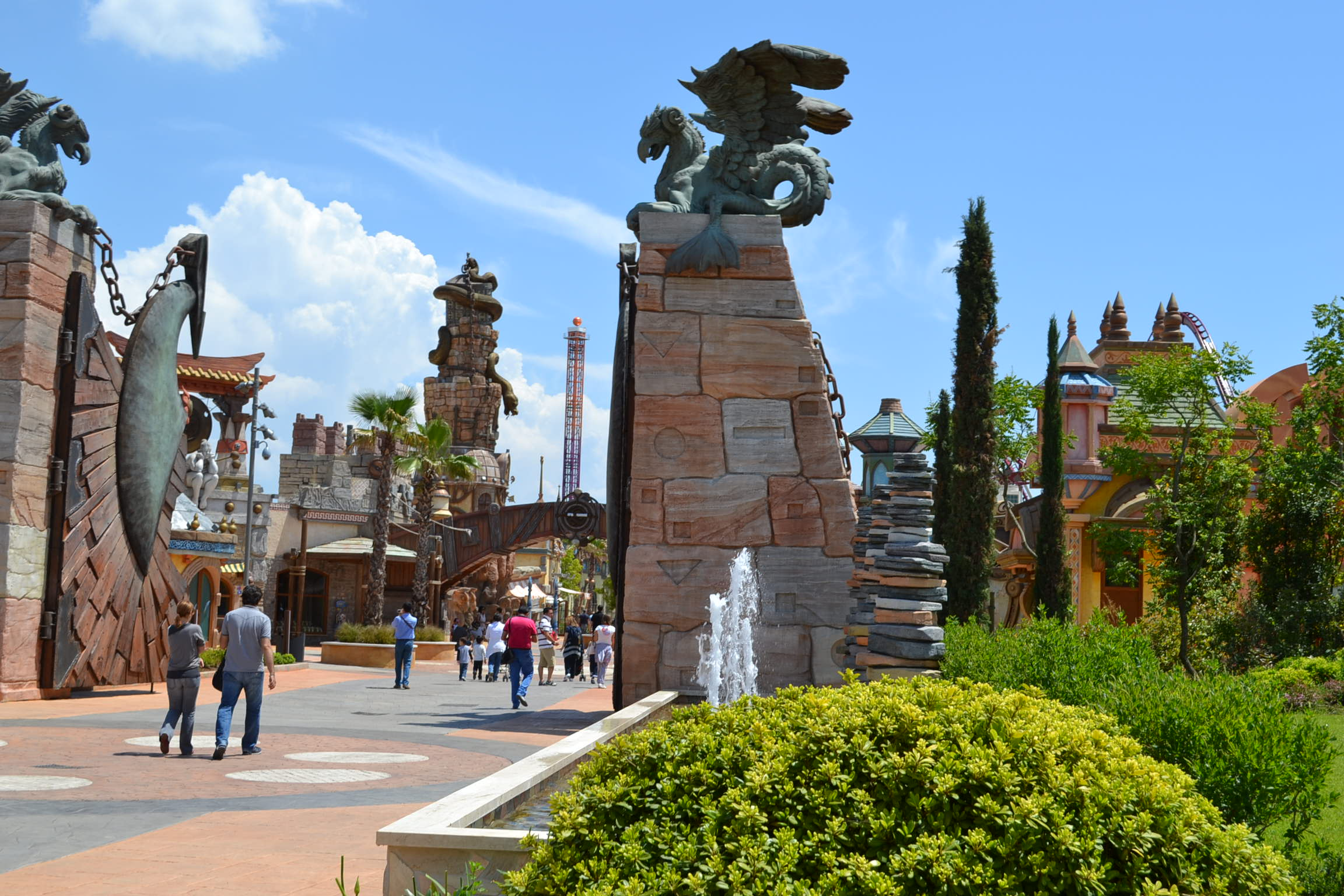 Magico portone